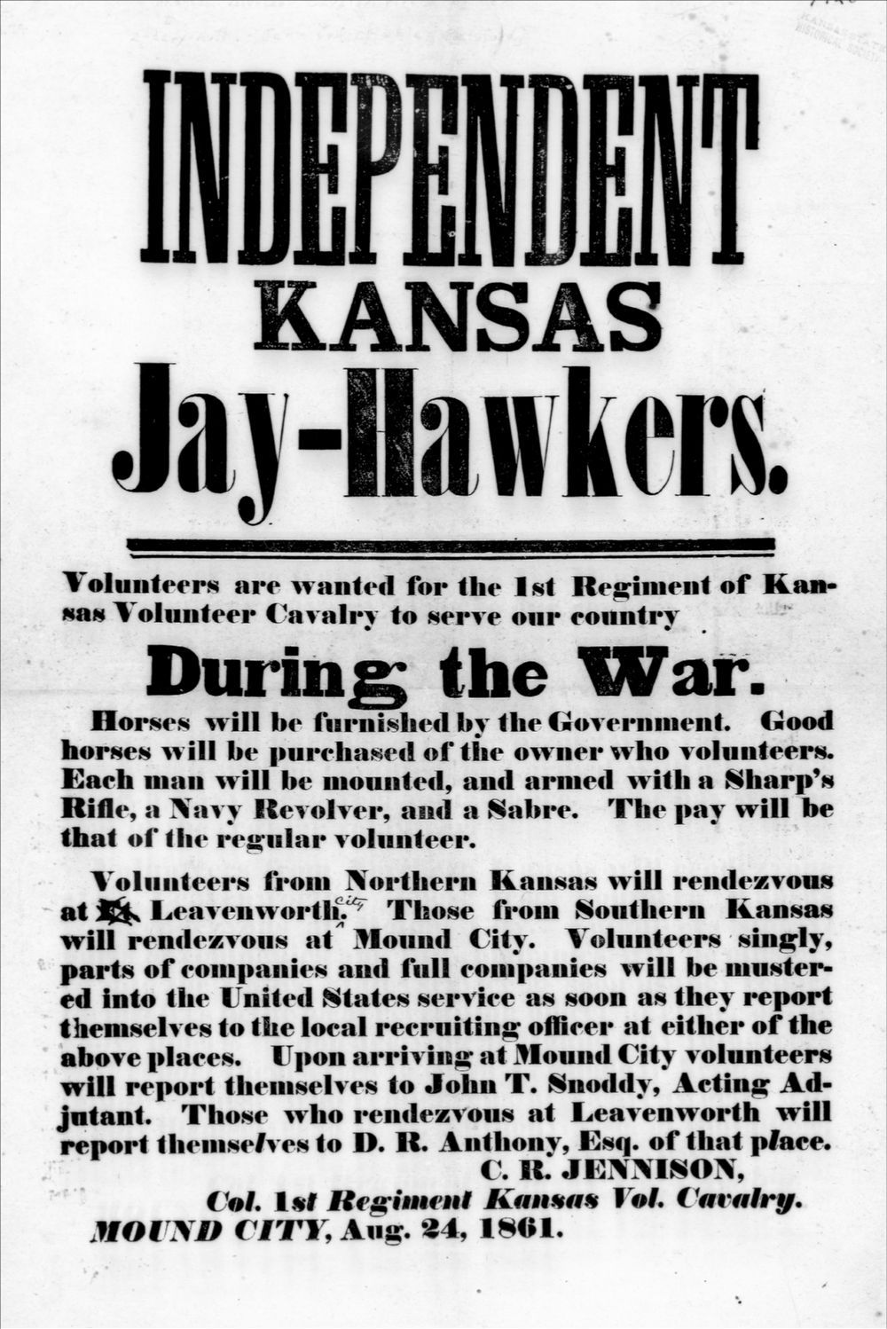 Broadside recruiting men for the Independent Kansas Jay-Hawkers, 1st Kansas Volunteer Cavalry, August 24, 1861, Kansas Historical Society